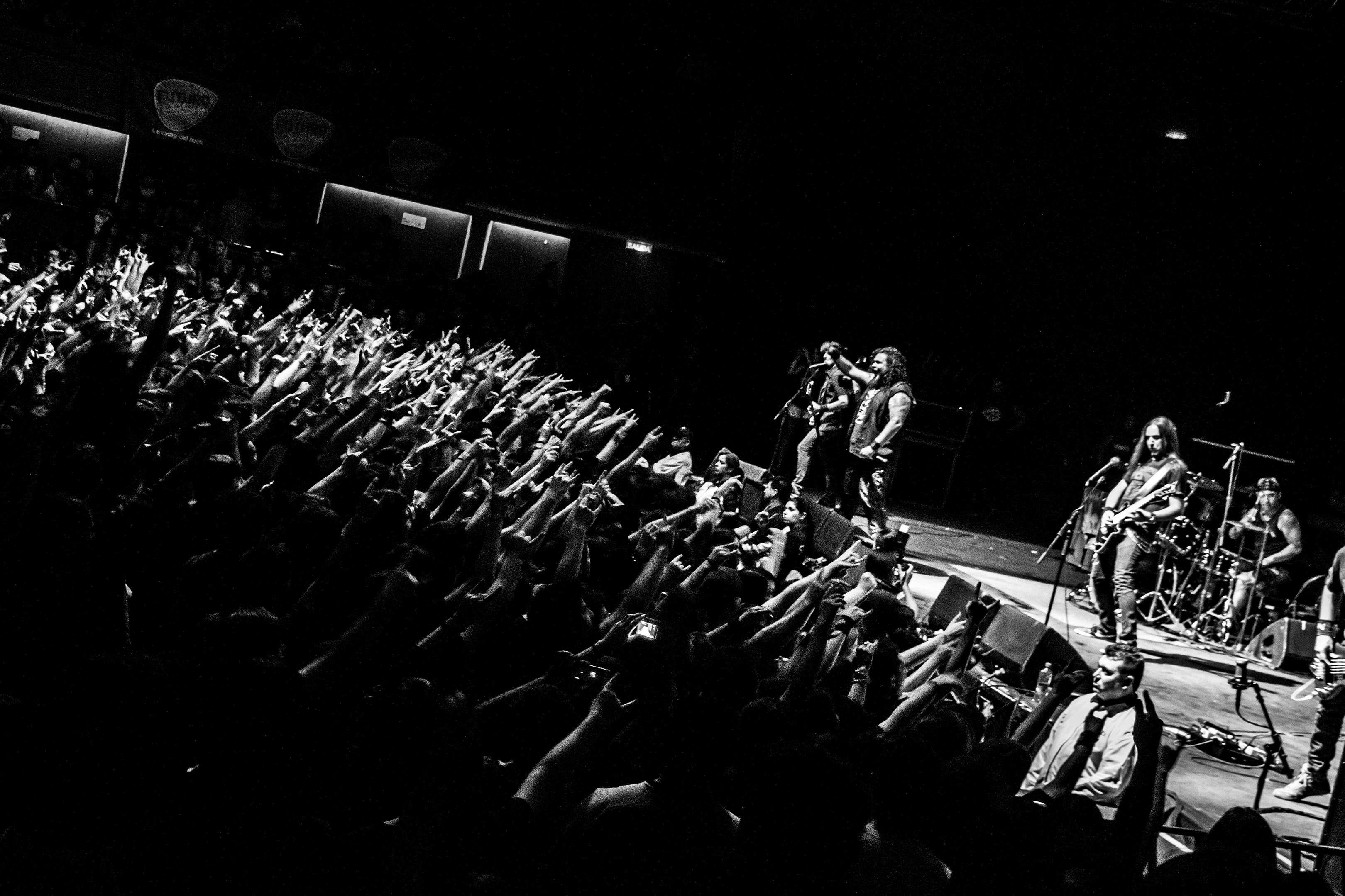 Break.Down on Stage Teatro Caupolican, Santiago, Chile, 21 March 2014